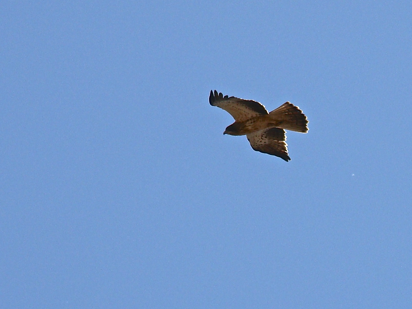 Booted eagle over Miramont-de-Comminges, France